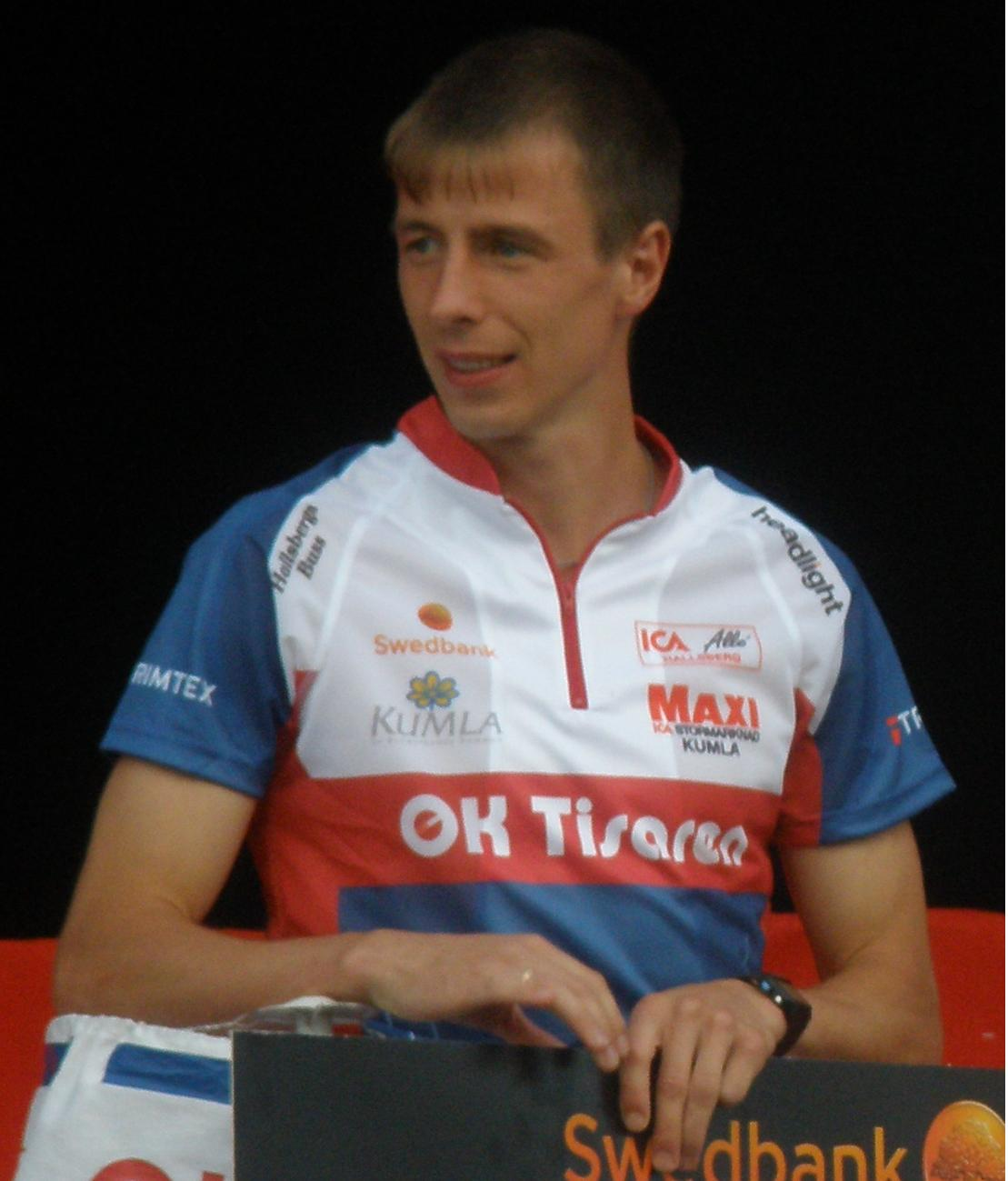 Dmitriy Tsvetkov at the victory ceremony of O-Ringen 2008